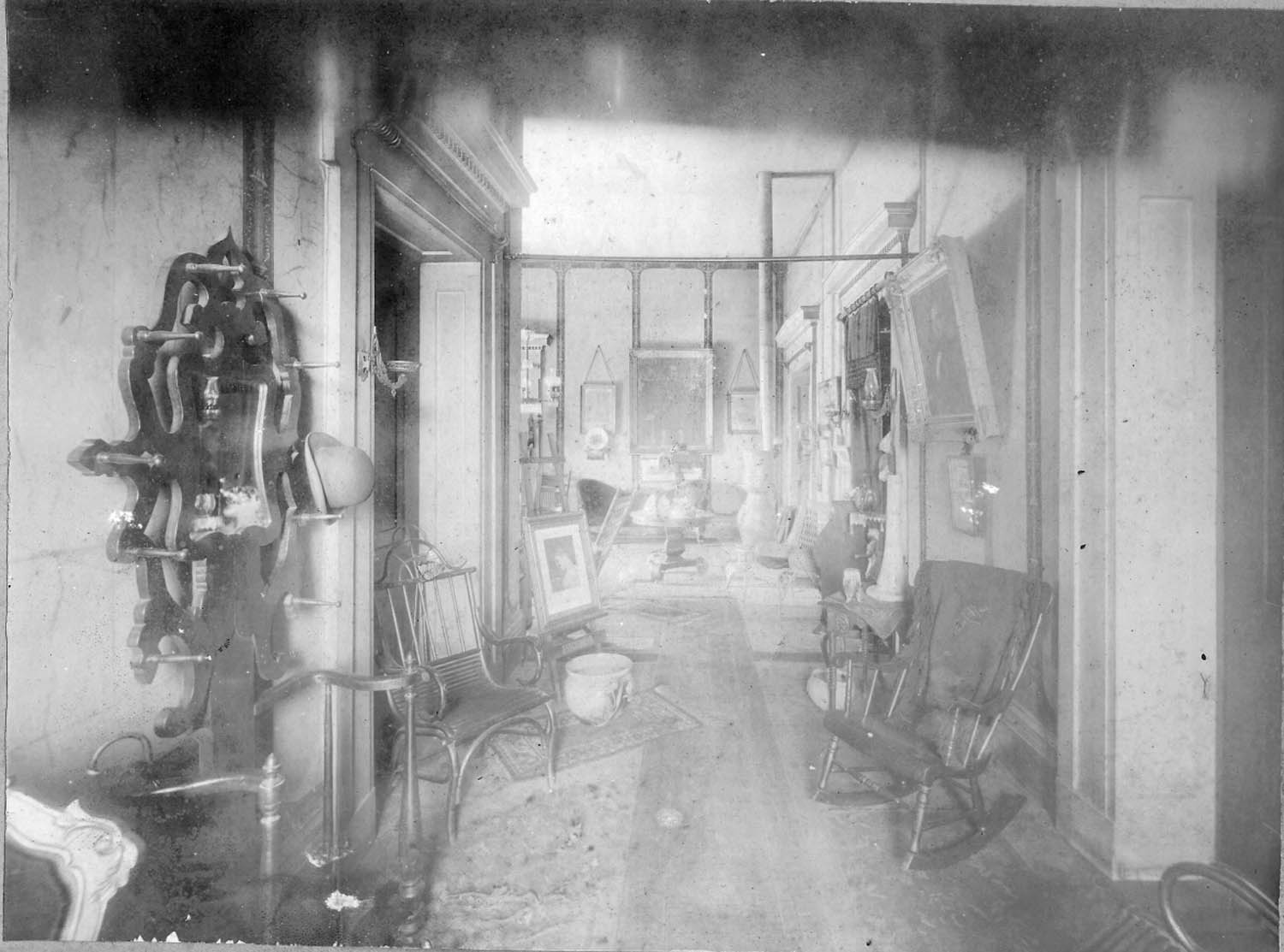 Interior of Polk Place was taken near the time of Sarah Polk’s death in 1891.